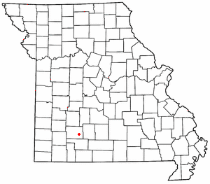 Modified from a map on Wikipedia.